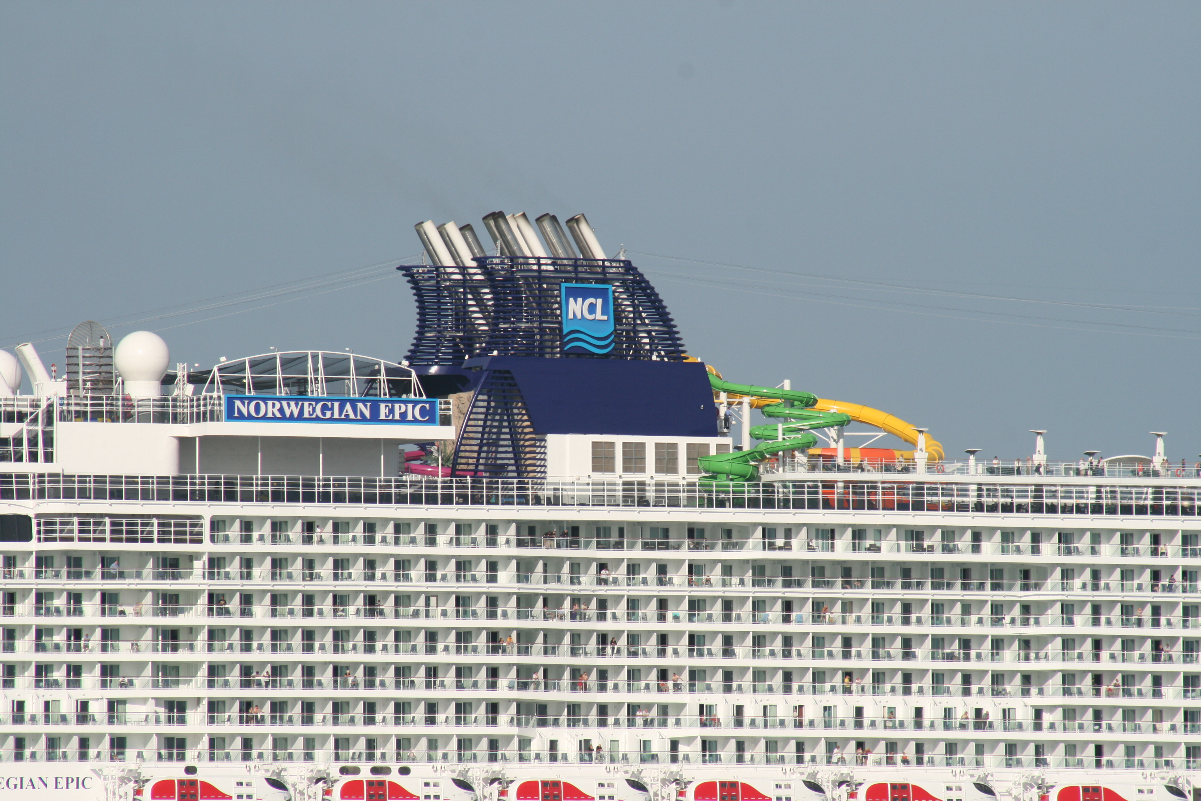 The Aqua Park water slide on the Norwegian Epic, a 155,000 gross tonnes cruise ship of Norwegian Cruise Line passing Calshot Spit light buoy in the Solent, outward bound from Southampton on its maiden voyage, bound for New York on 24 June 2010. Image uploaded by me User:George.Hutchinson from a photograph taken by and supplied by Brian Burnell. The photograph should be attributed to Brian Burnell in this format. Wikipedia editors are reminded that the copyright remains with the photographer, and that the terms of the Creative Commons Attribution-ShareAlike 3.0 Unported Licence that allow editors to reuse this image apply to Wikipedia editors also, as they do to other reusers of this image. Breaches of the licence terms are not only unlawful, but are also antisocial, in that breaches discourage photographers from making their images freely available to everyone without payment. Non-Wikipedia users are requested to advise Brian Burnell of its use other than on Wikipedia.